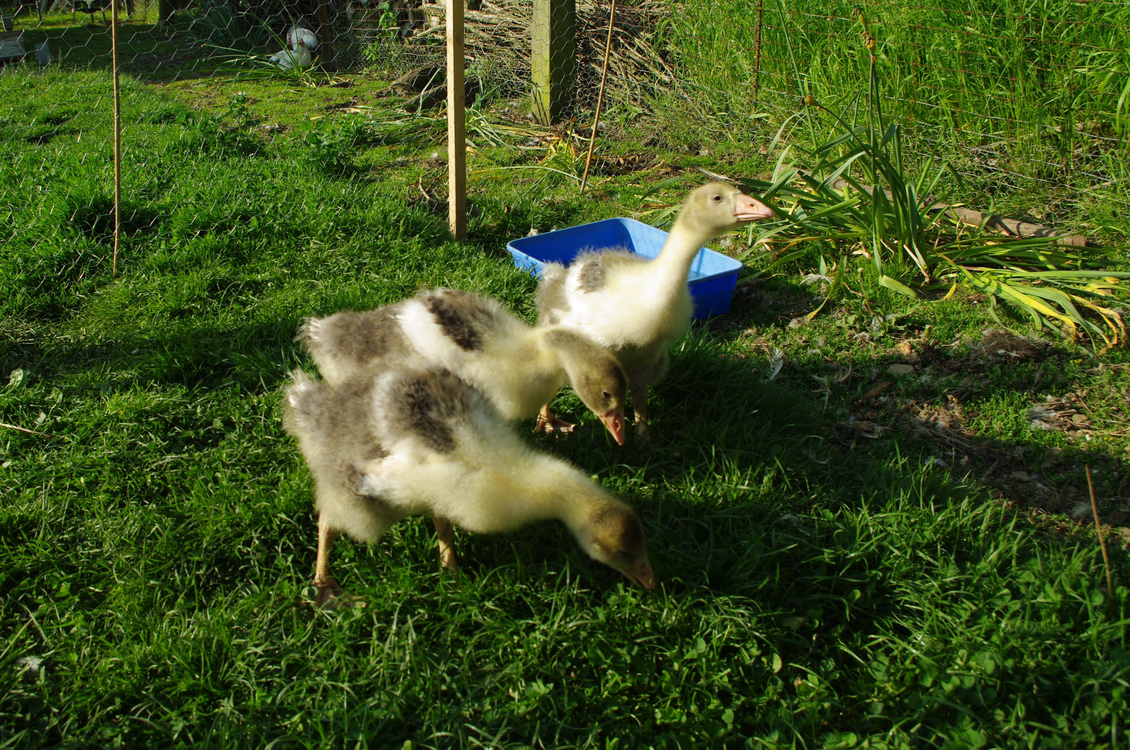 Flemish gooselings